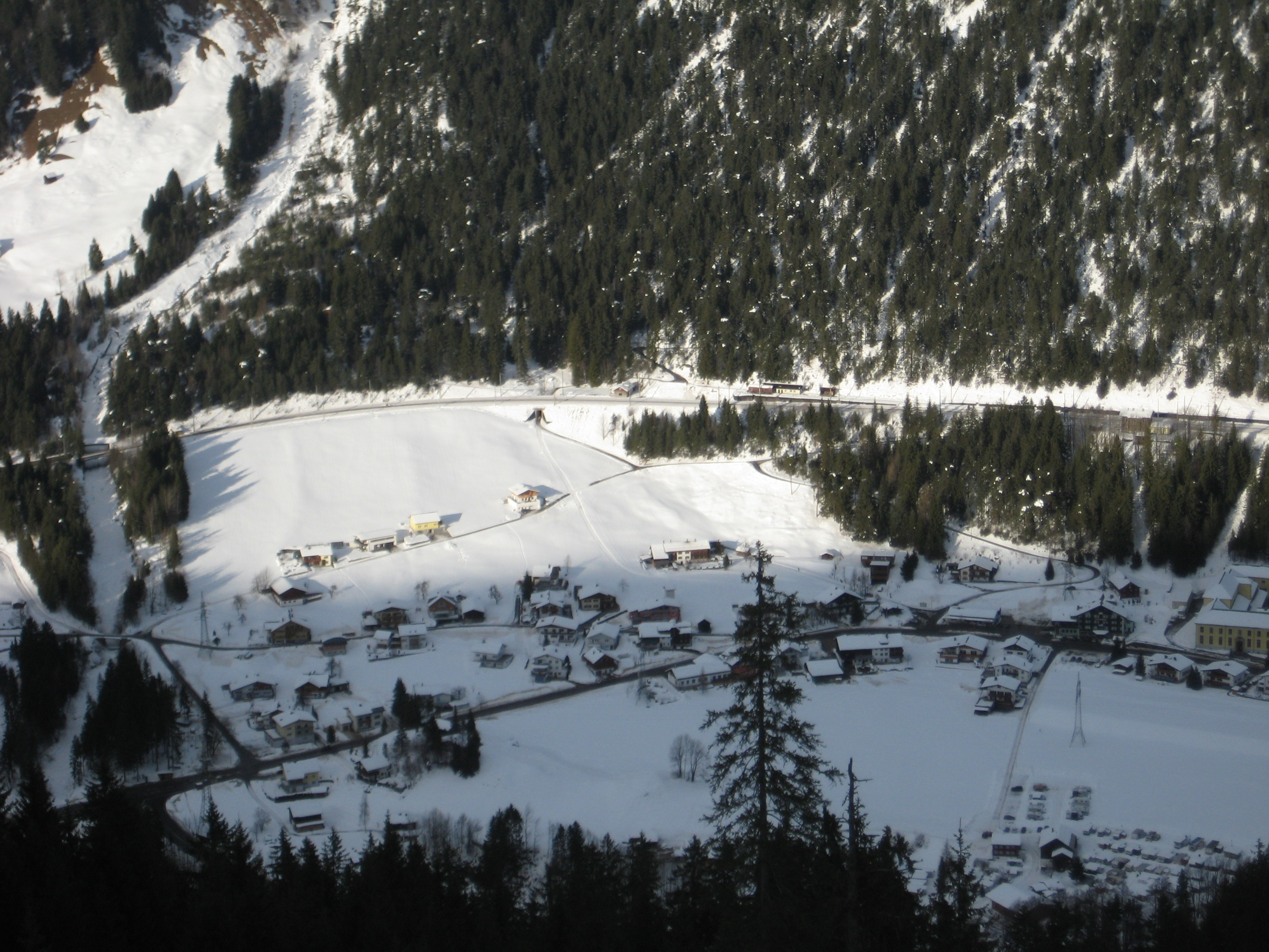 The Village Wald am Arlberg, part of Dalaas, taken from a Cable car